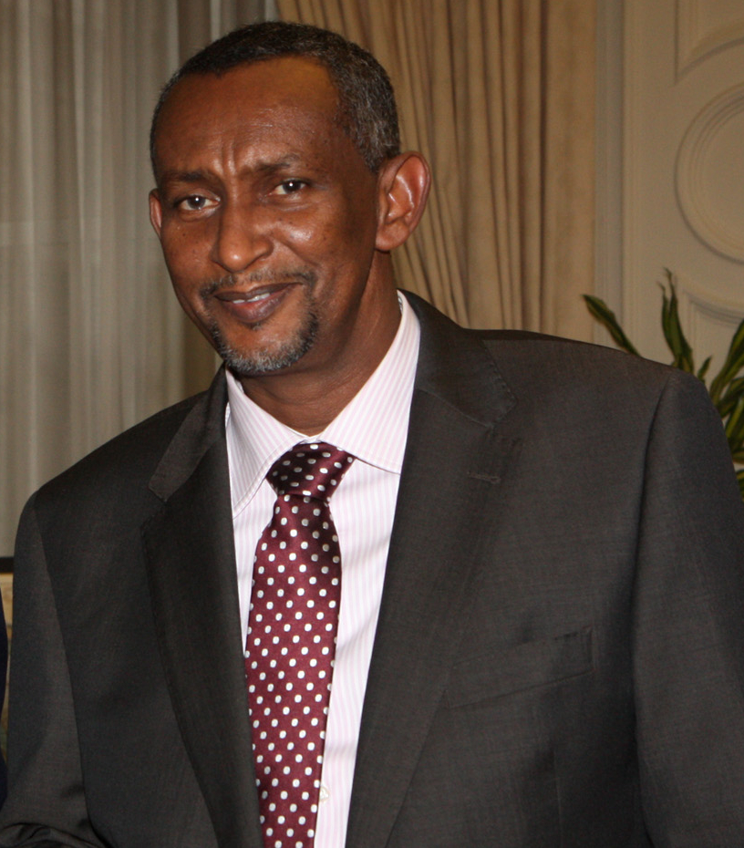 Somali diplomat Mahboub Maalim, the Executive Secretary of the Intergovernmental Authority on Development (IGAD).